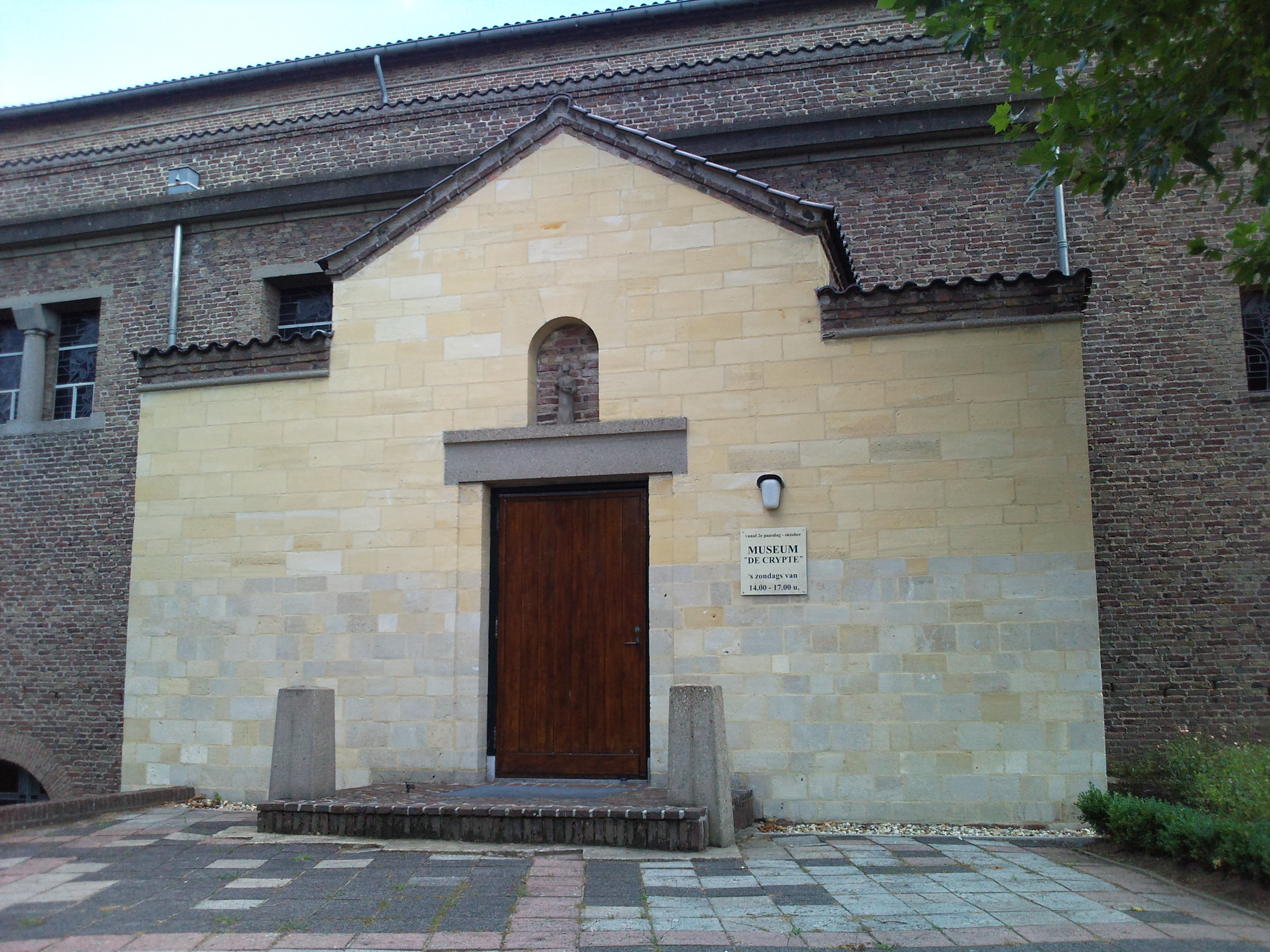 entrance Museum De Crypte, Gennep, The Netherlands